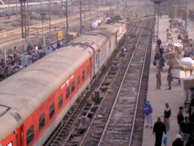 Mumbai rajdhani leaving New Delhi station